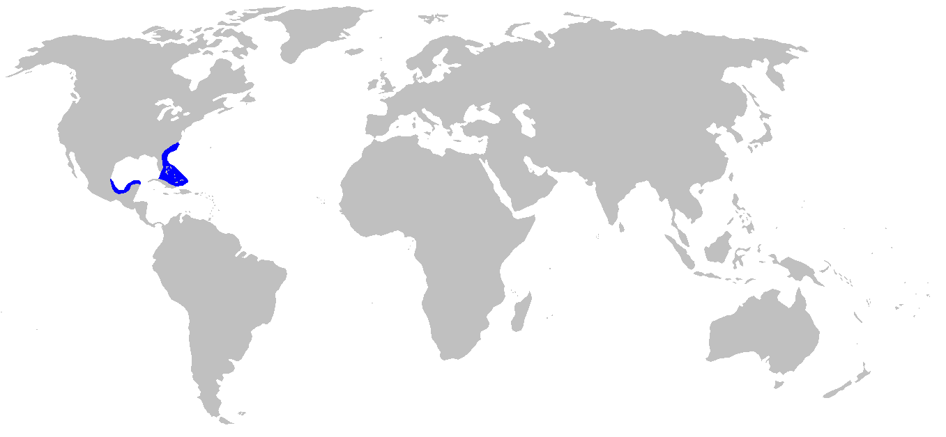 Distribution map for Scyliorhinus meadi